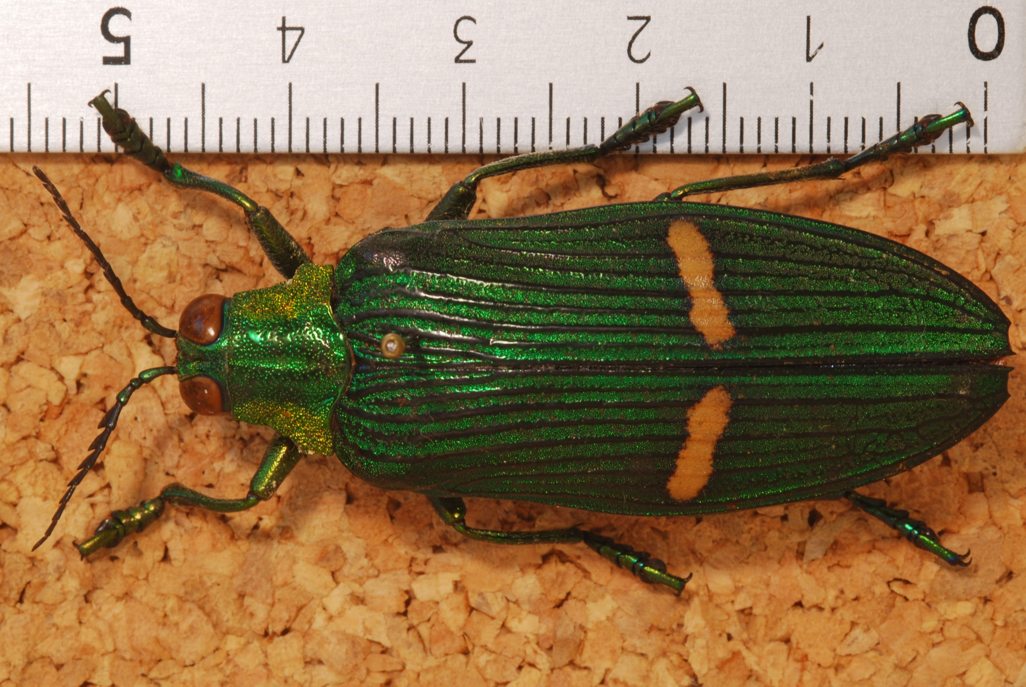 Cameron Highlands, MALAYSIA